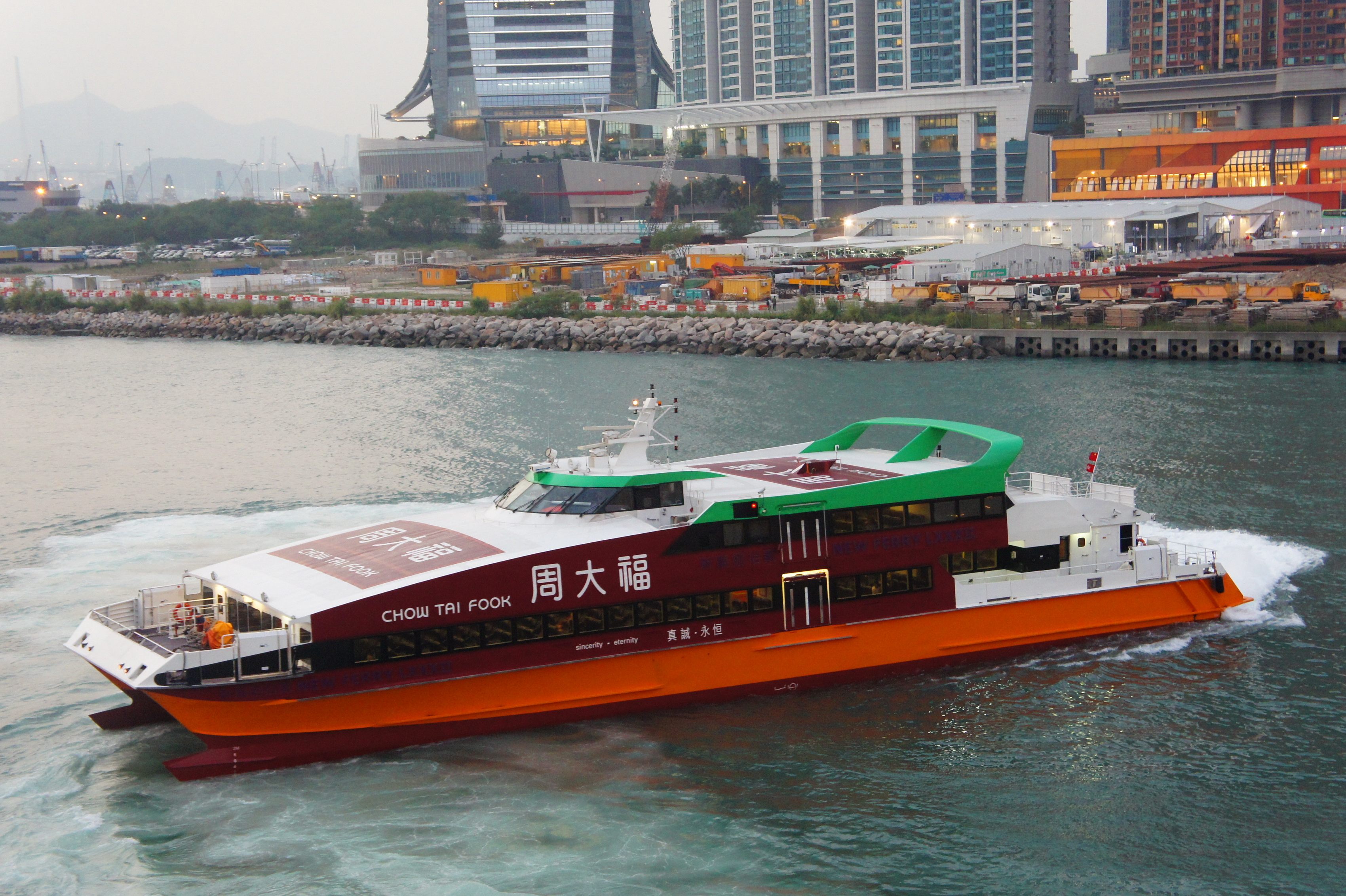 An Austal catamaran, operated by Shun Tak-China Travel Ship Management Limited, painted with Chow Tai Fook advertisement.